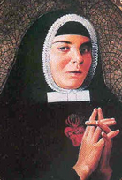 Anna "Giovanna Francesca" Michelotti (1843-1888), Italian Roman Catholic nun, who served the poor. Foundress, beatified